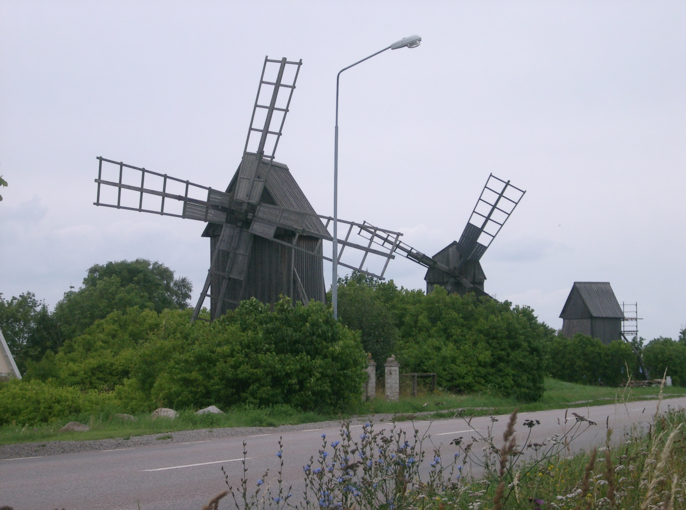 Oland windmills